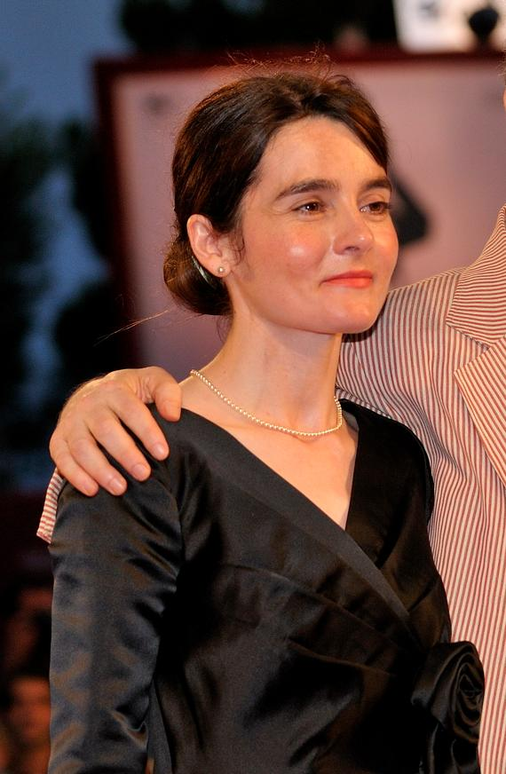 Actress Shirley Henderson at 2009 Venice Film Festival